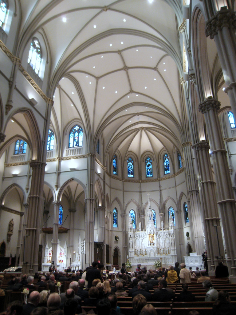 Cathedral St. Paul See where this picture was taken. [?]